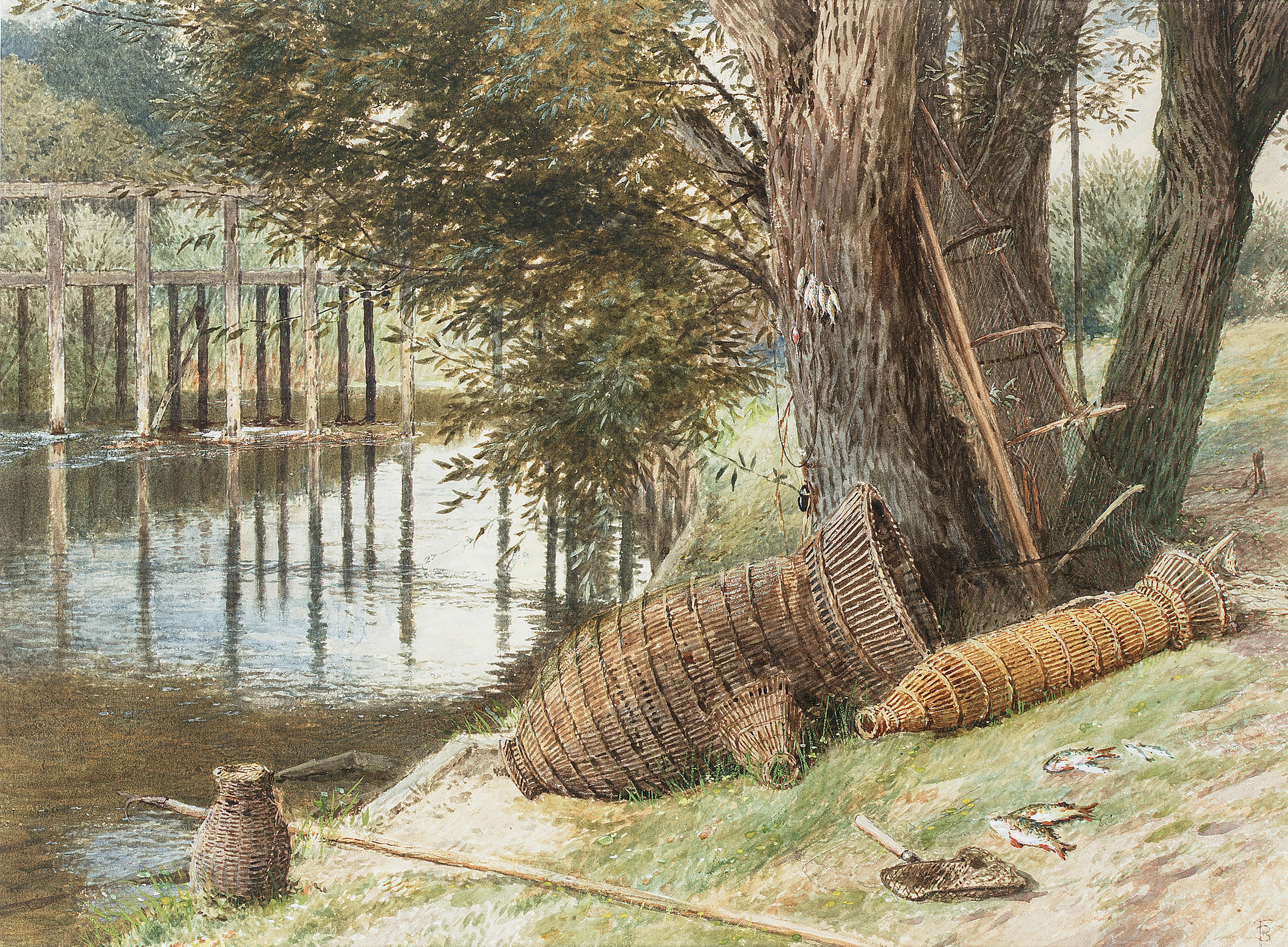 The Eel Traps. Signed with monogram, watercolour heightened with white, 26.5 x 35.5 cm